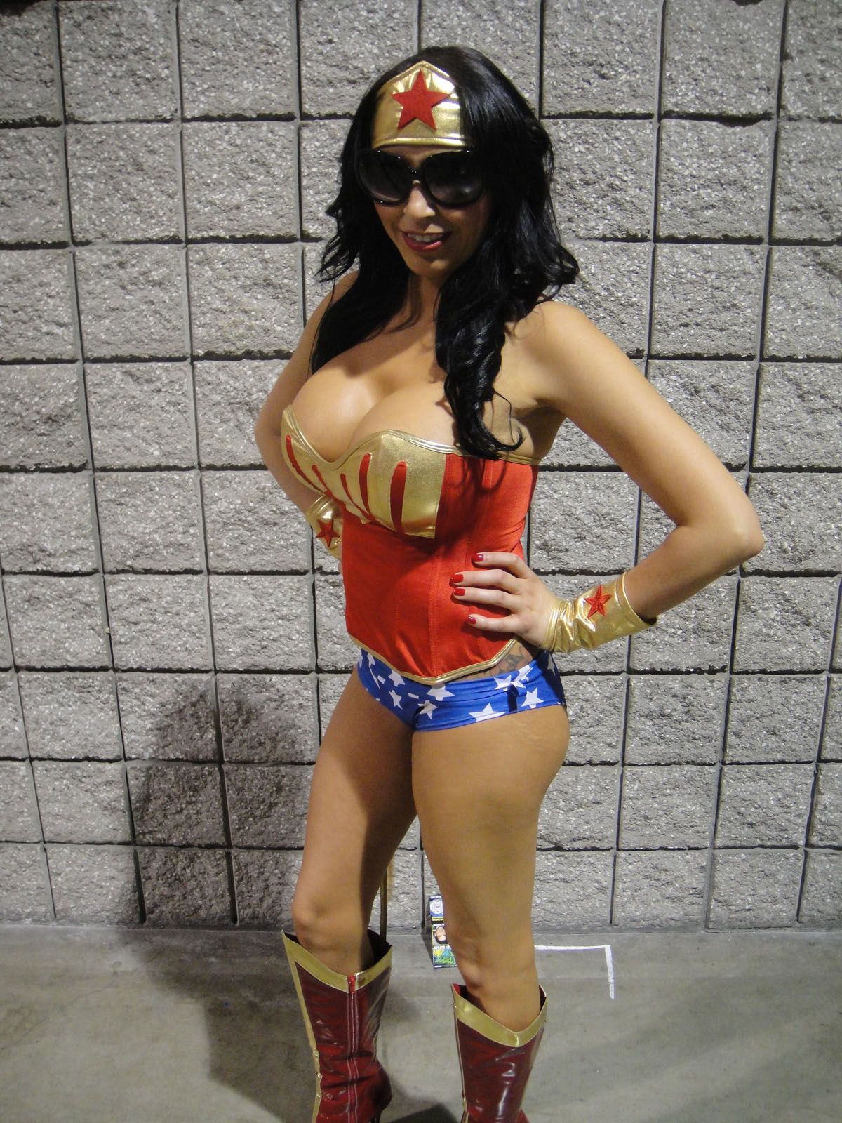 2011 Pop Culture Geek, taken by Doug Kline. If you're interested in higher resolution versions of my images, contact me via my profile page.